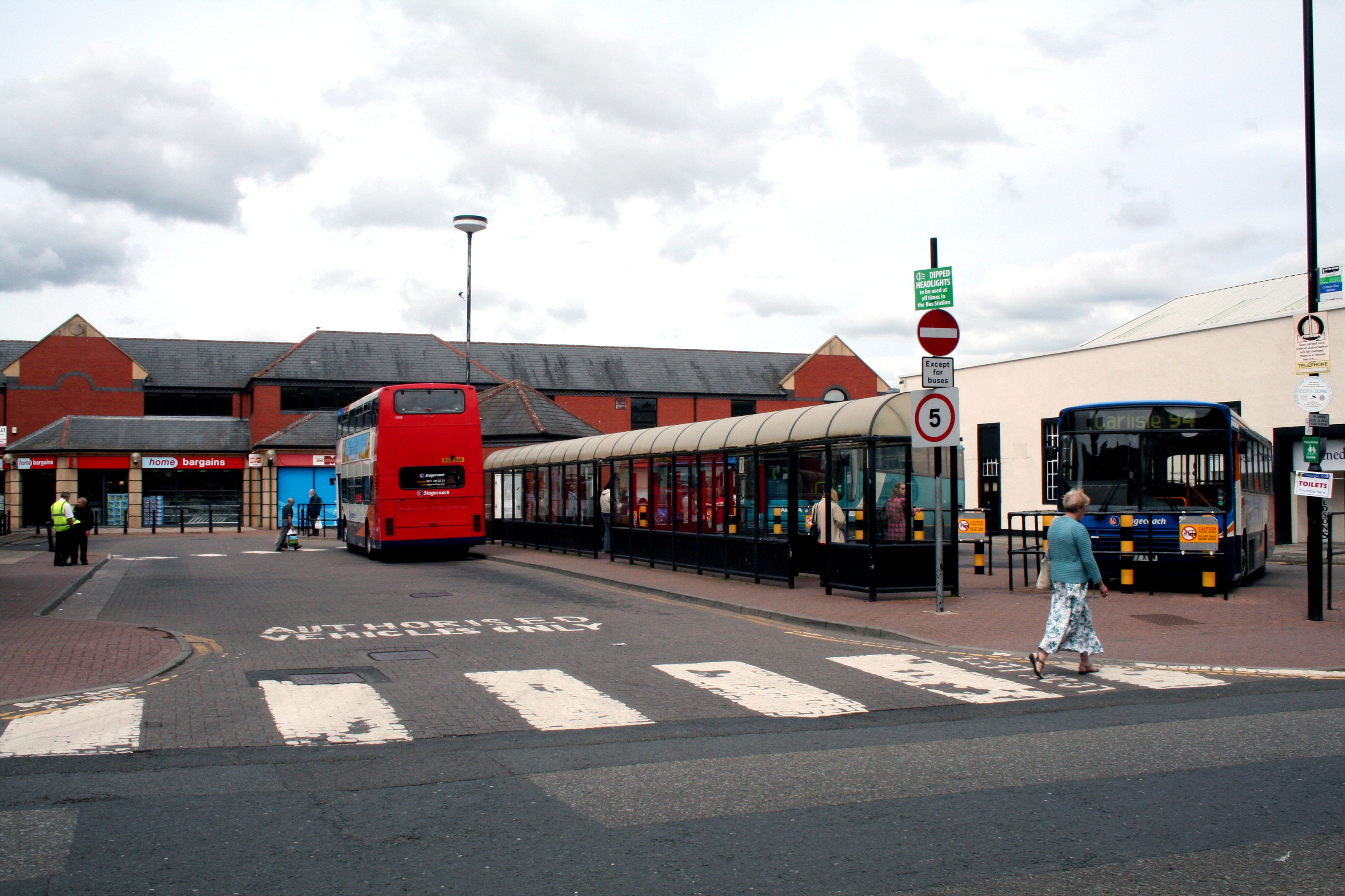 Carlisle bus station, Data from Geograph: Description: Note that, if you hold an English concessionary bus pass, it is only valid as far as the border, and if you ride through into Scotland, you have to pay for the Scotch portion of the journey. The converse applies for Scottish... more ICBM: 54.894518707728, -2.9326573826952 Location: (about 0 km from) near to Carlisle, Cumbria, Great Britain.